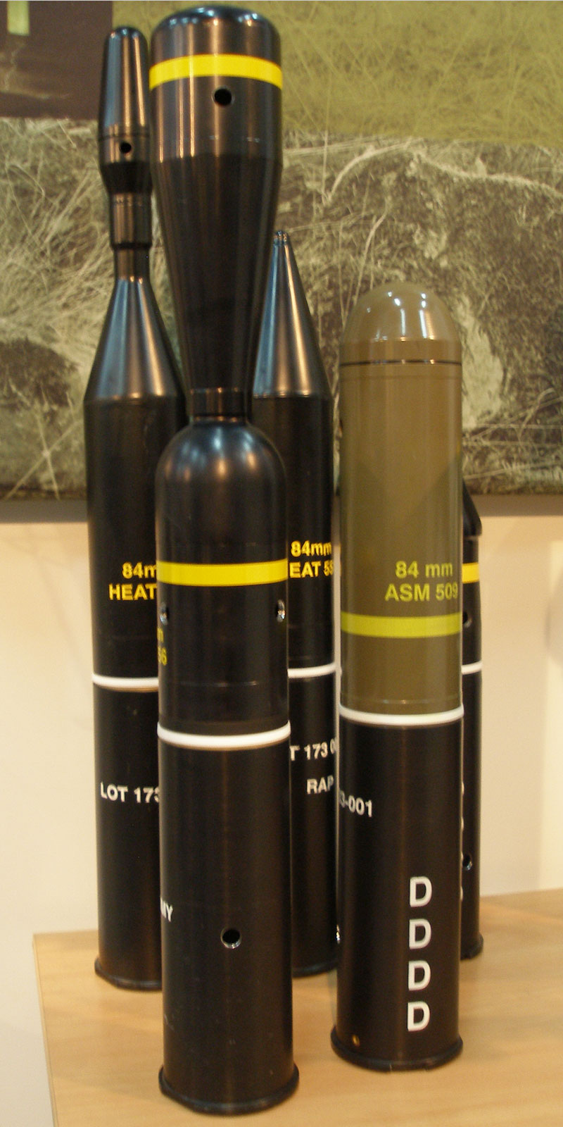 84mm ammo for Carl Gustaf. Rear left: HEAT 751 High Explosive Anti Tank, armor piercing ammunition with tandem hollow charge for defeating ERA. Rear center: HEAT 551C RS High Explosive Anti Tank, armor-piercing ammunition with simple hollow charge. Rear right: HEDP 502 High-Explosive Dual Purpose, bunker-busting ammo with additional charge. Front left: MT 756 Multi Target, uses a tandem charge to breach the walls of buildings and eliminate soft targets inside. Front right: ASM 509 Anti-Structure ammunition.